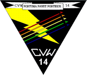 Insignia of the U.S. Navy Carrier Air Wing 14 (CVW-14), circa between 2006 and 2013.